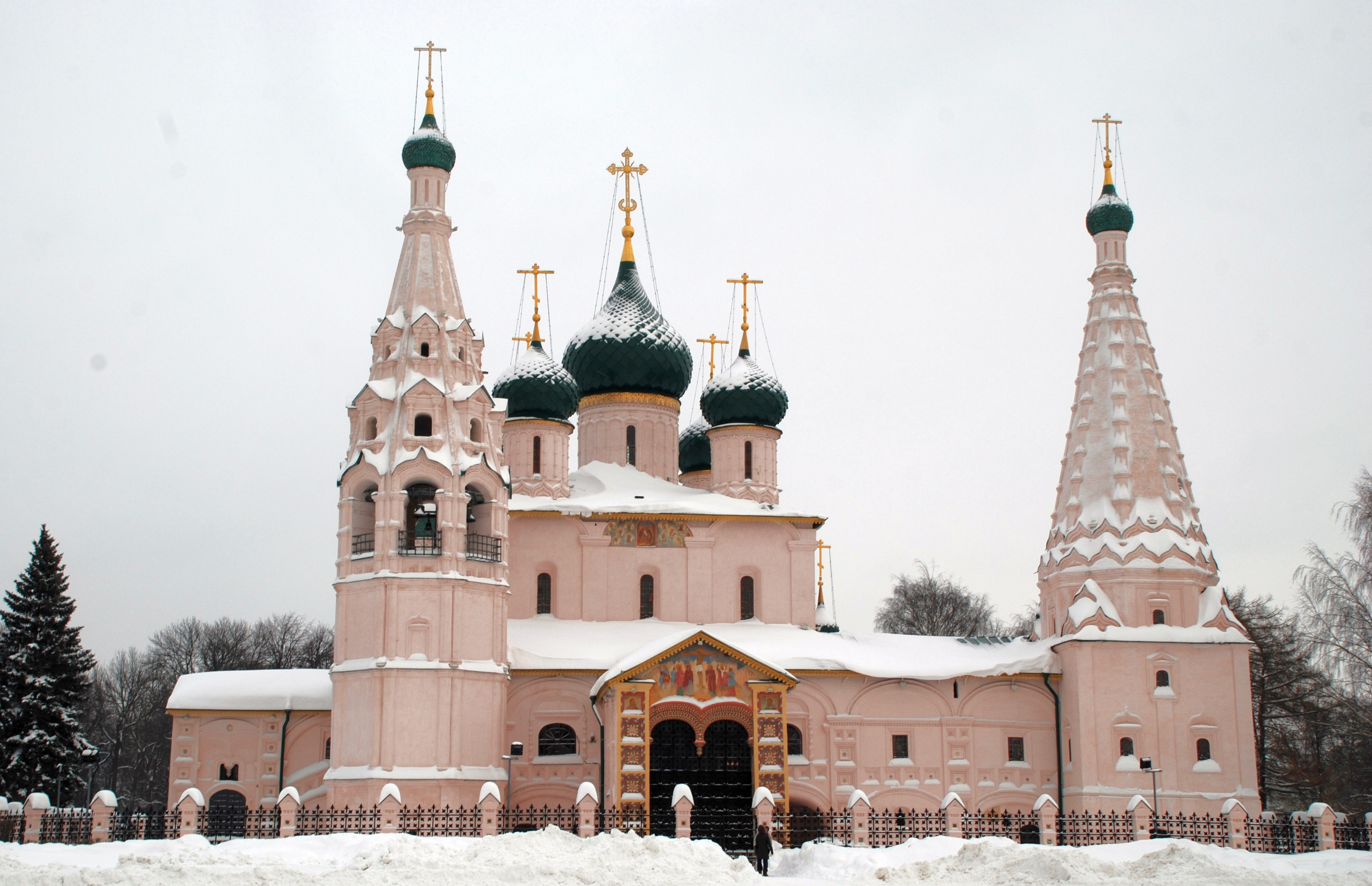 St Elijah Church in Yaroslavl